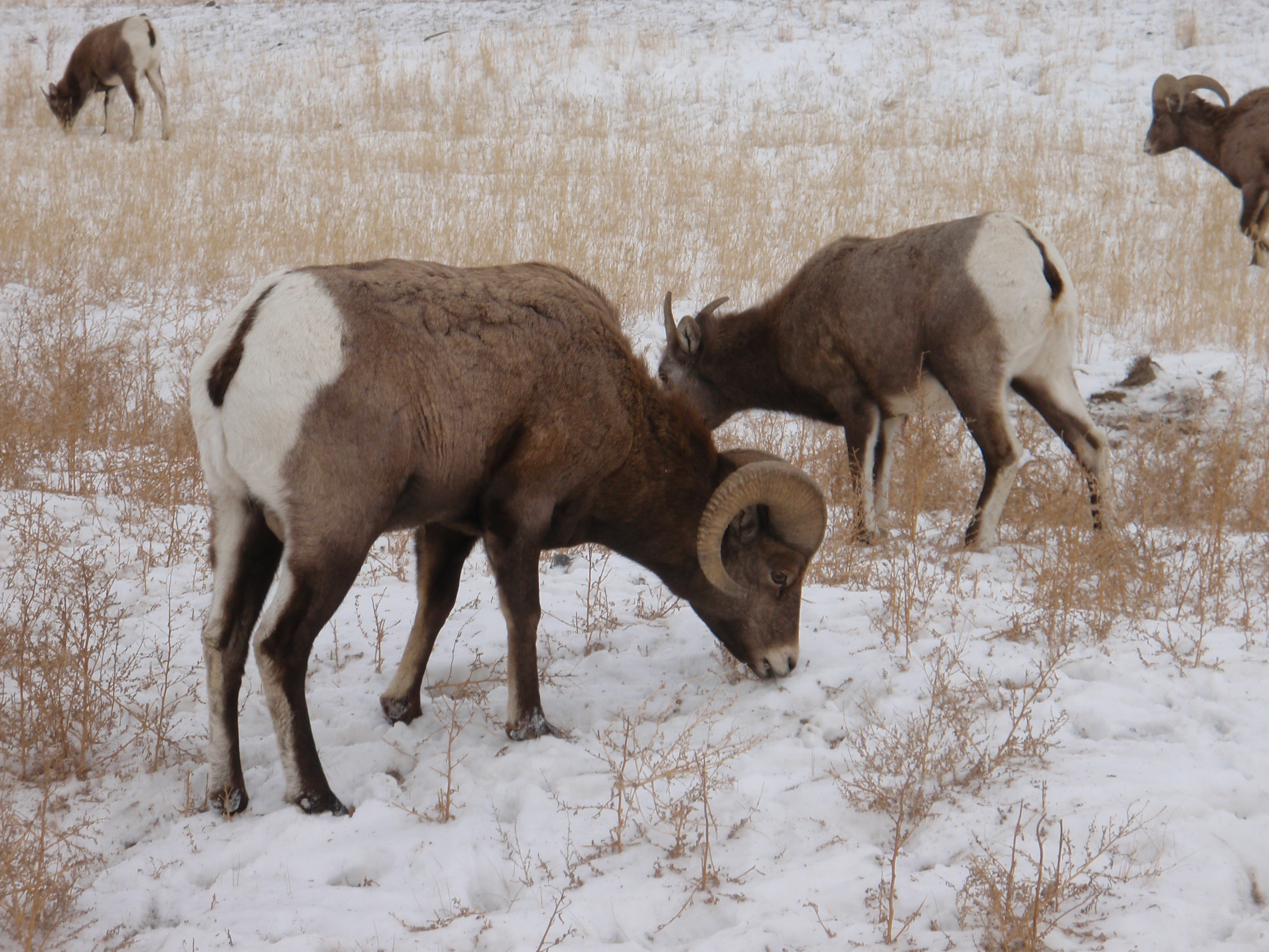 Bighorn Sheep in Yellowstone National Park, December 2008